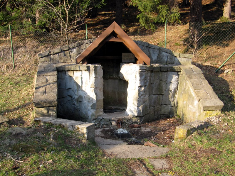 Spring in Ochodnica